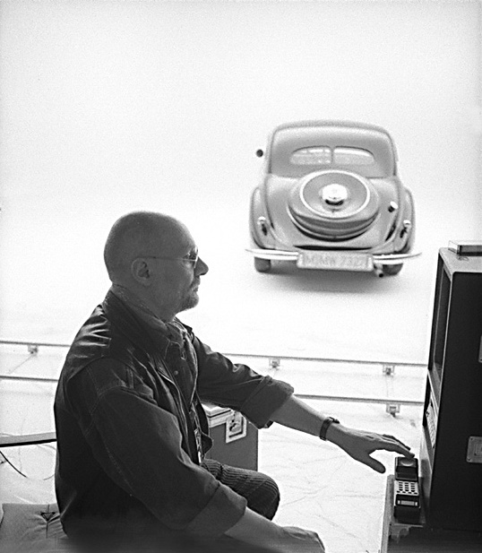 Internationally renowned Belgian photographer, Jean-Marie Botteqiun, commissioned by BMW